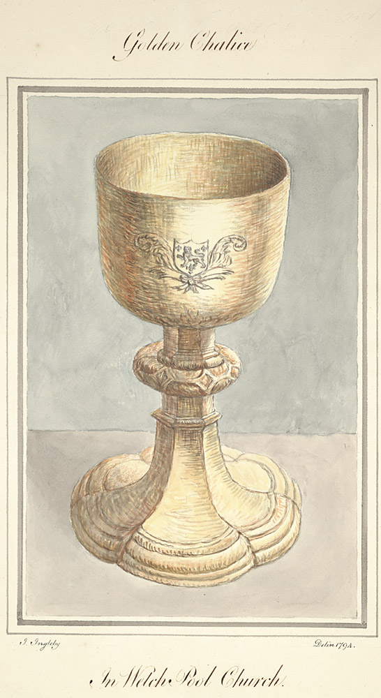 Golden chalice in Welch Pool Church, 1794